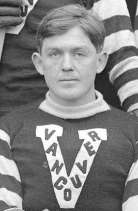 Ice hockey goaltender Allan Parr of the Vancouver Millionaires club. The picture is a crop out of a larger team photo taken in the 1913–14 PCHA season.